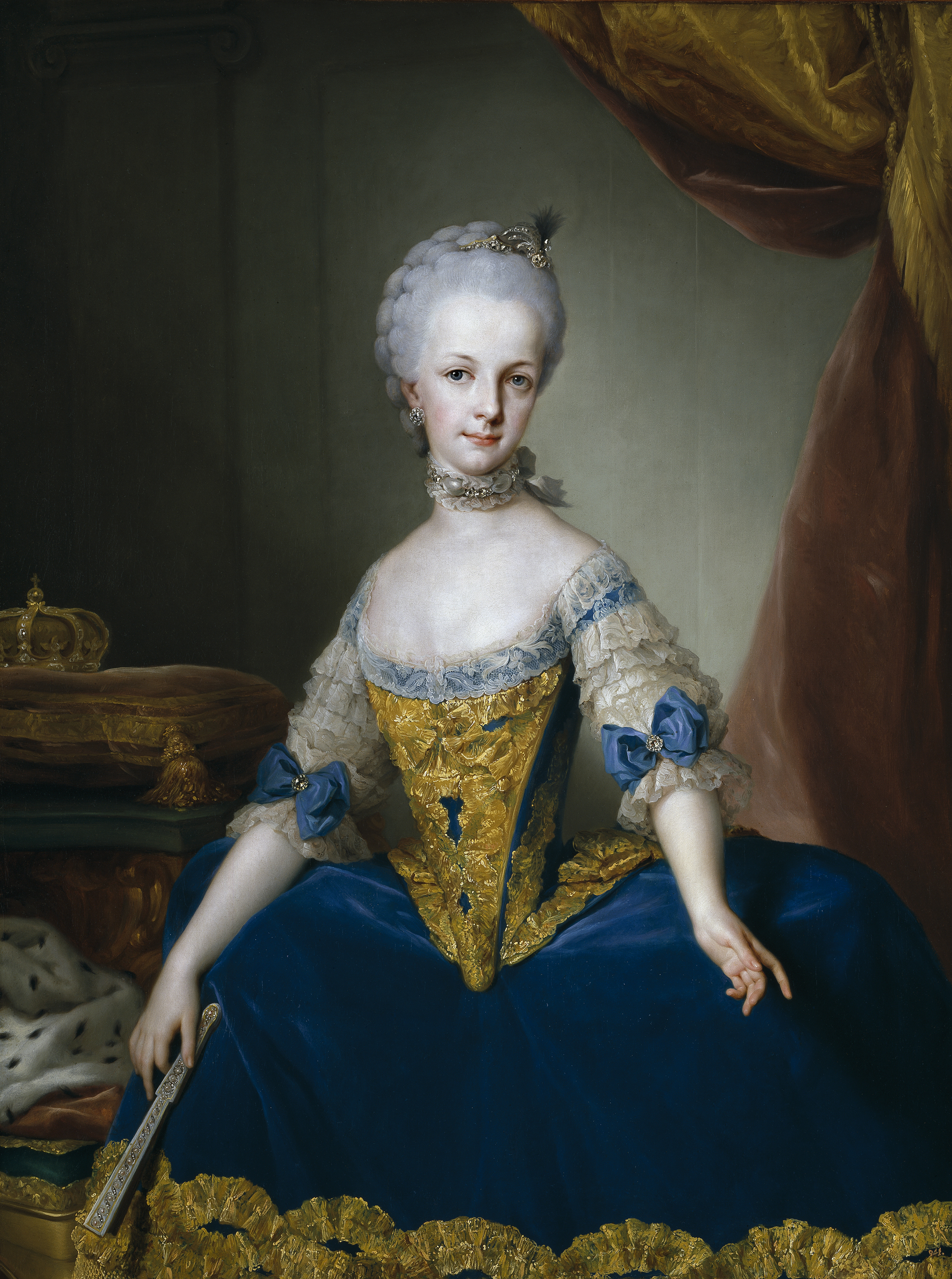 Maria Josepha of Austria, daughter of Maria Theresa of Austria and Francis I, Holy Roman Emperor. She was engaged to Ferdinand IV of Naples (the crown of which is in the background), but she died of smallpox at the age of 16 before the marriage.